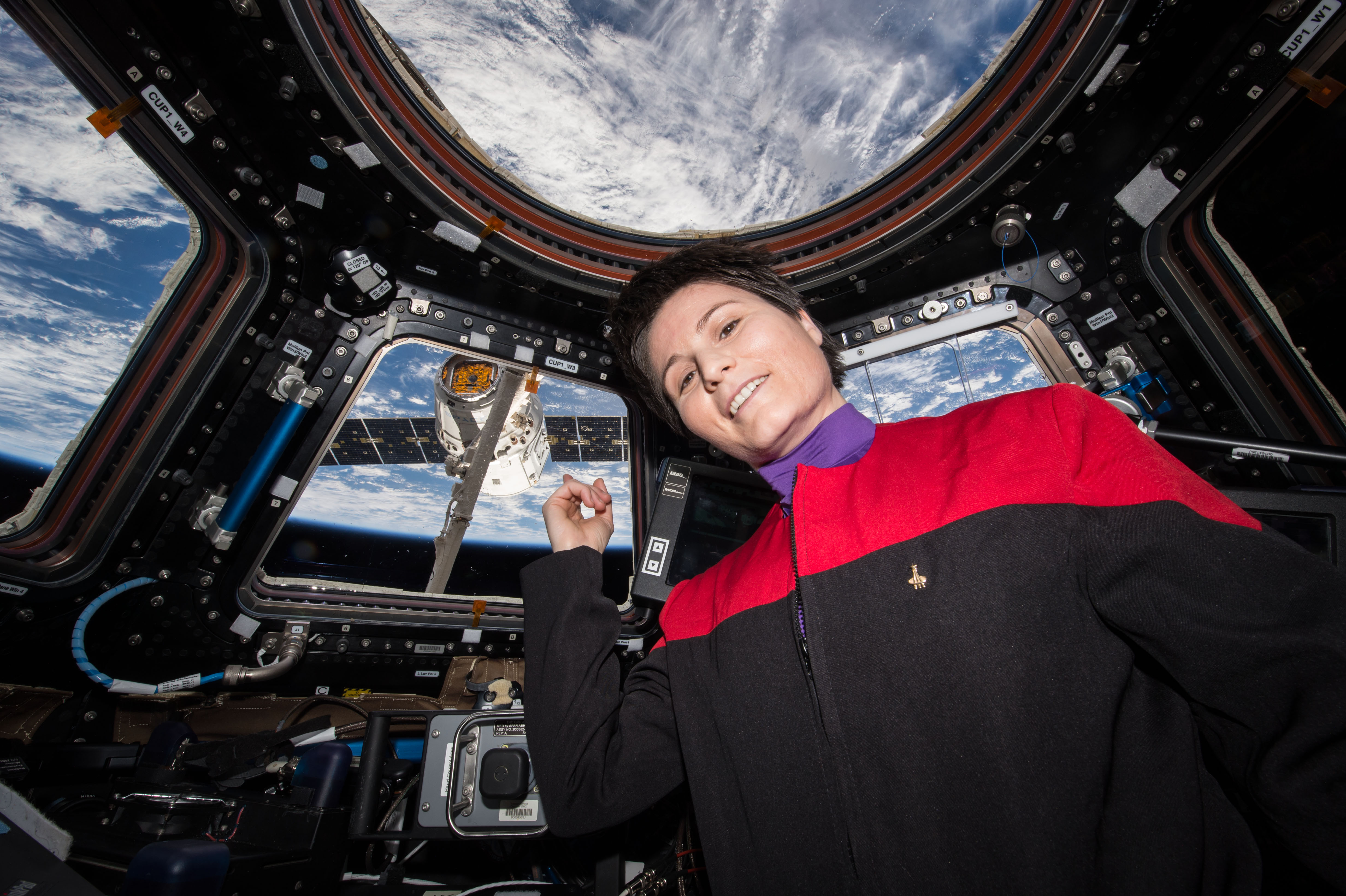 "There's coffee in that nebula." [1] ESA (European Space Agency) astronaut Samantha Cristoforetti seen here as Captain Janeway in the Cupola of the International Space Station. Cristoforetti captured the SpaceX Dragon cargo craft using the Canadarm2 robotic arm before handing off to robotics officers at Mission Control, Houston, Texas who worked to maneuver Dragon to its installation position at the Earth-facing port of the Harmony module where it will reside for five weeks. Cristoforetti points to the Dragon in this image taken on Apr. 17, 2015 shortly after grappling. The Dragon carried more than 2 tons of equipment, experiments and supplies for the Expedition 43 crew aboard the station.